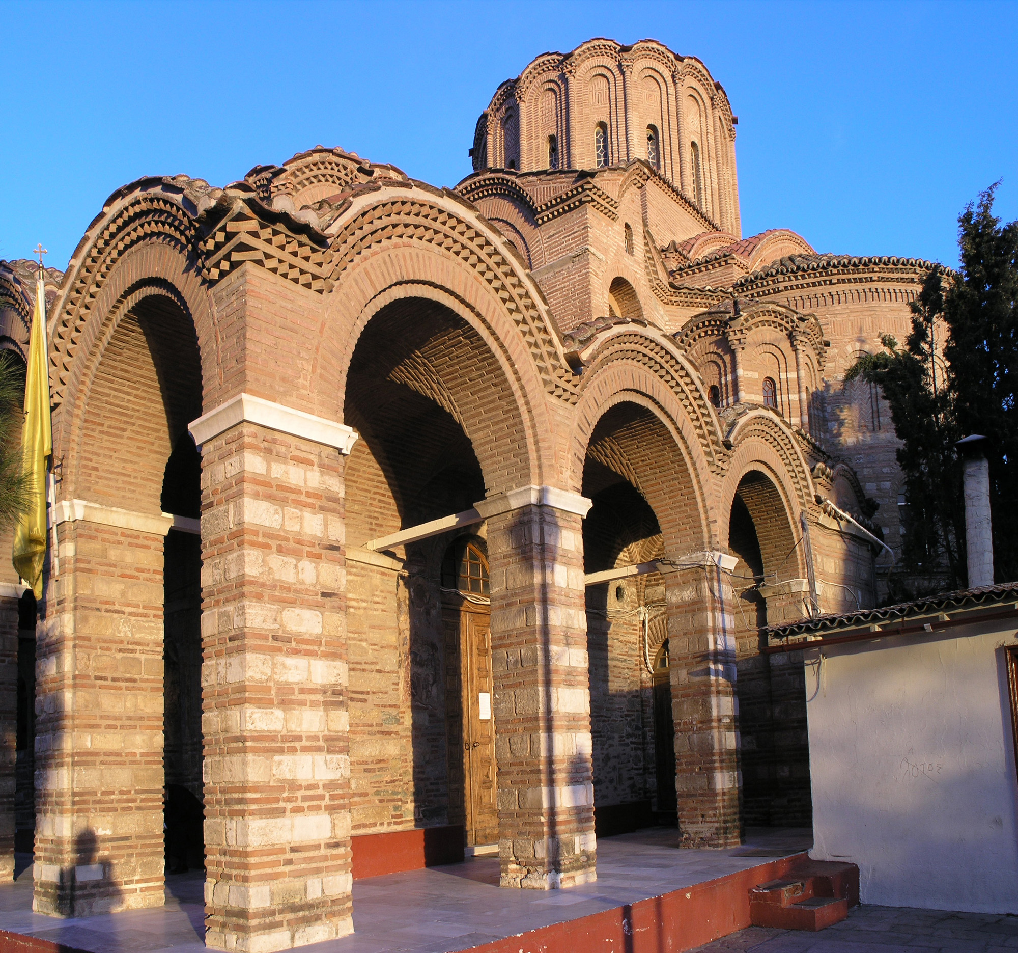 Byzantine church of Prophitis Ilias in Thessaloniki : south-west corner. Ca. 1360-1370. Photograph taken by Marsyas 10:28, 27 February 2006 (UTC)